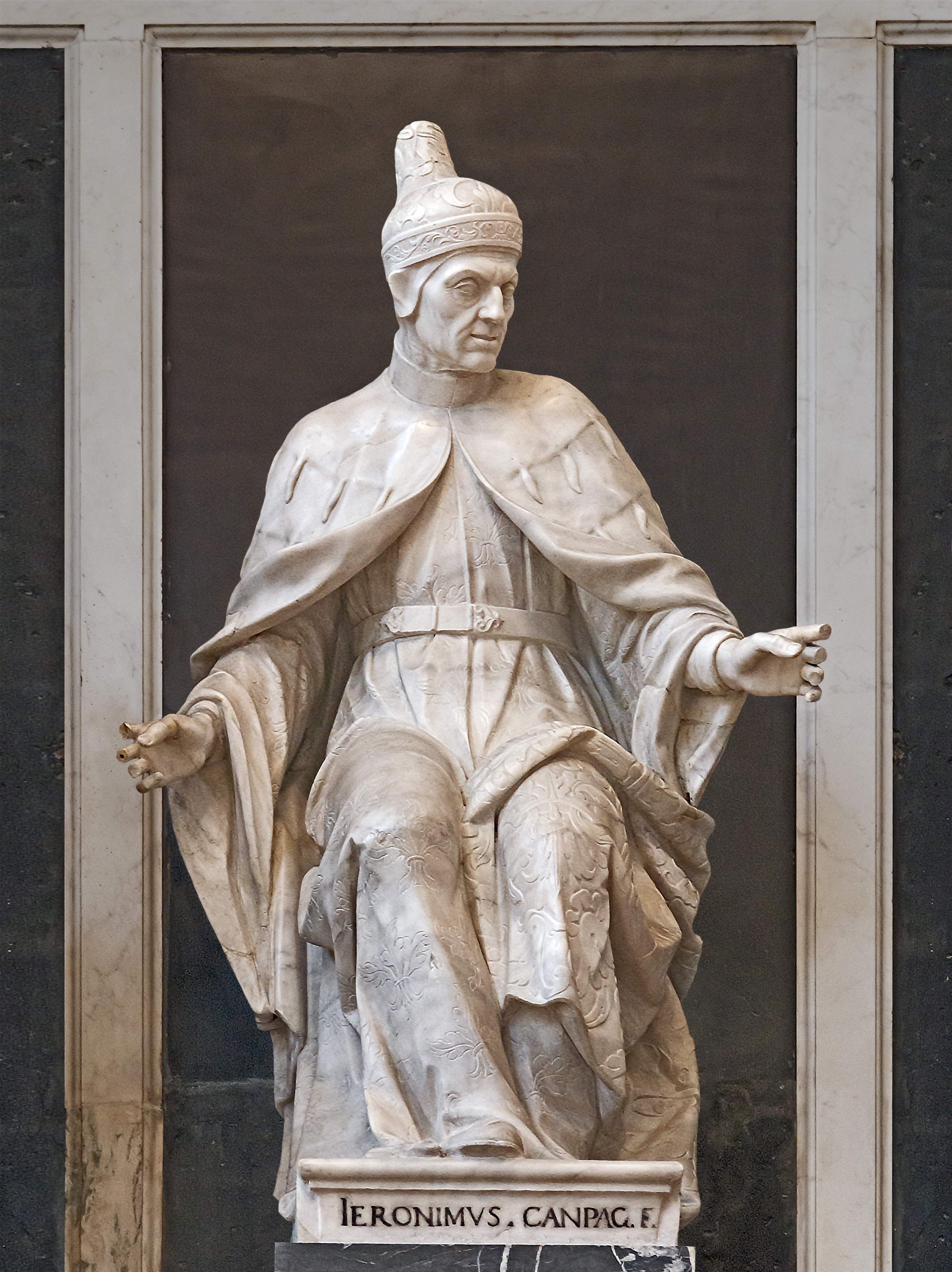 Choir of Santi Giovanni e Paolo in Venice. Tomb of the Doge Leonardo Loredan by Girolamo Grapiglia. Statue by Girolamo Campagna.